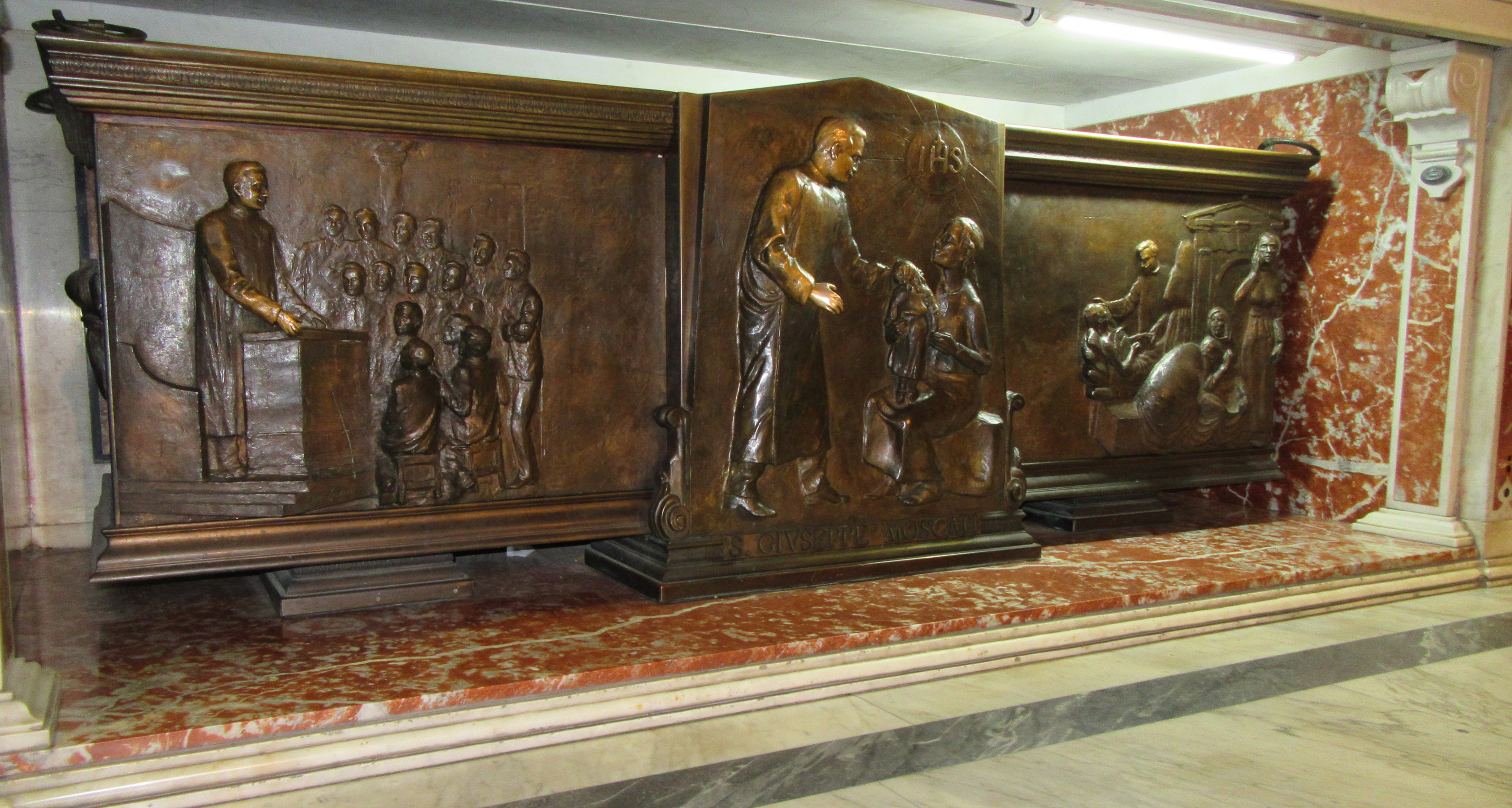 Saint Giuseppe Moscati's grave in Gesù Nuovo church, Naples.